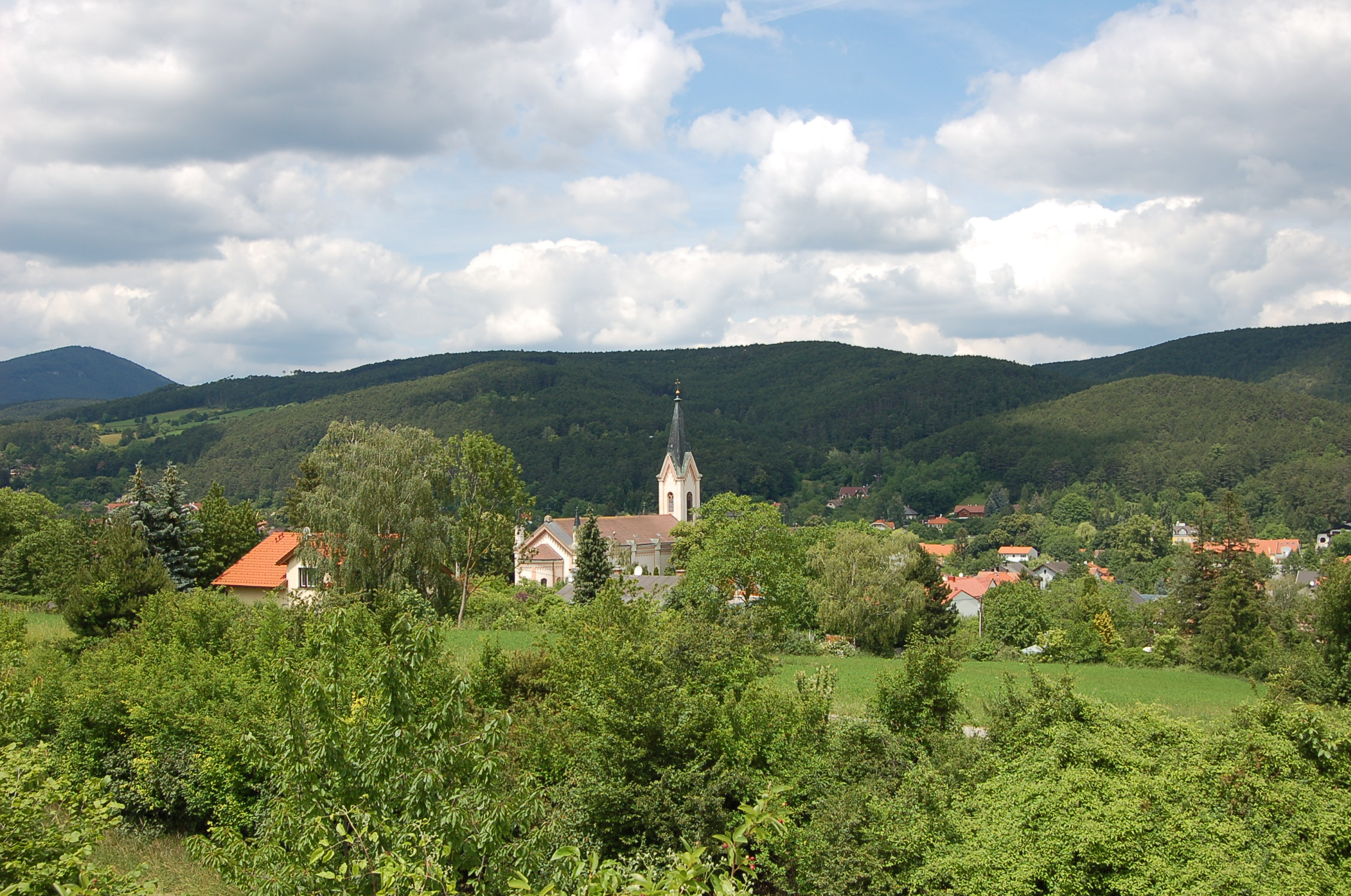 Parish church St. Leonhard, Markt Piesting, Lower Austria